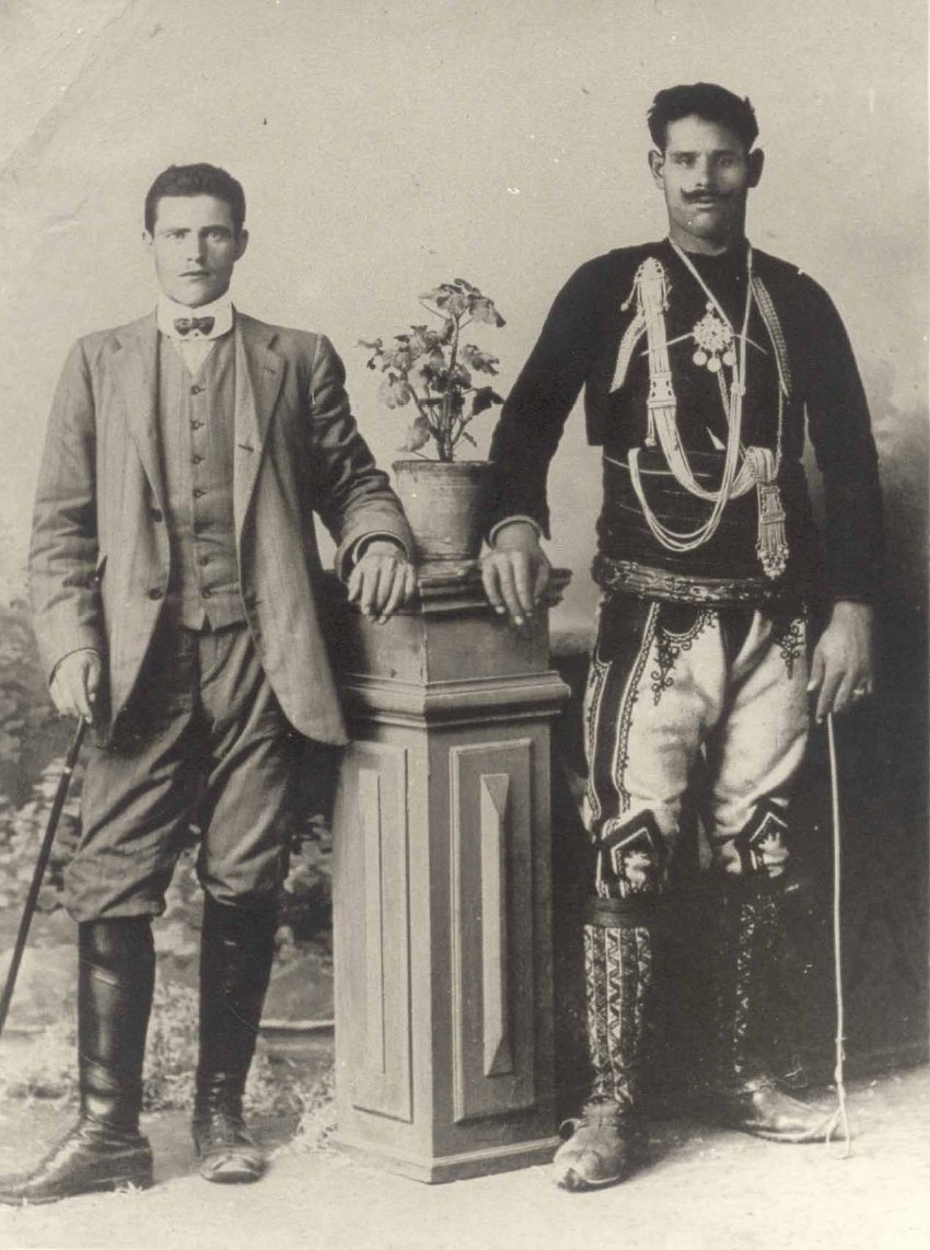 Portrait of greek andart captain Yanis Ramnalis and Lazos Dogiamas